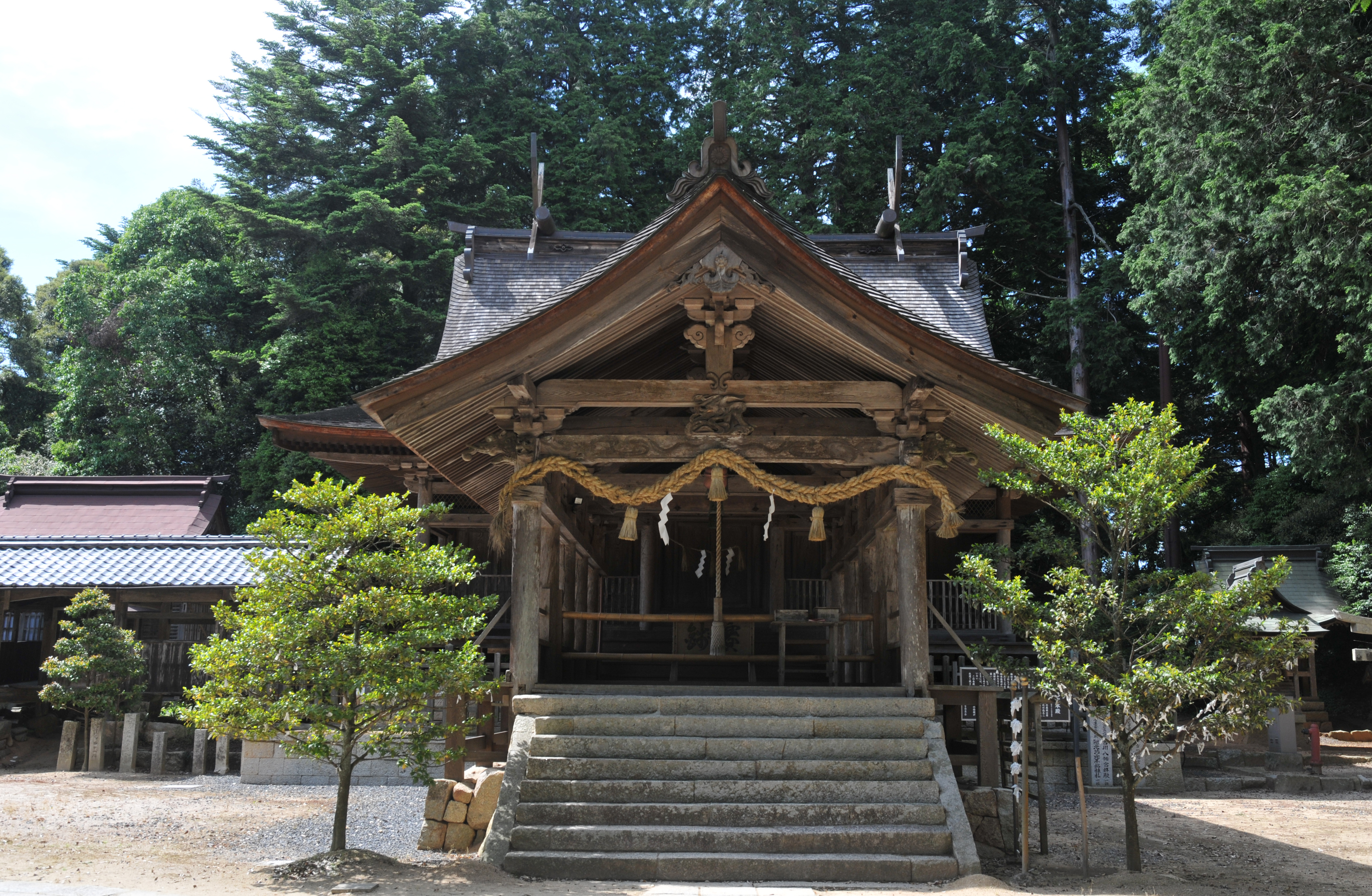 Front shrine and Main shrine, Yoshikawa-hachimangū